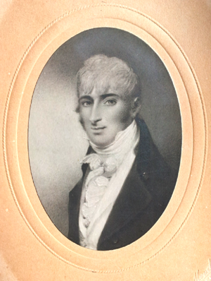 English Consul General in Helsingør Charles Fenwick, builder of Fairyhill in Helsingør, Denmark